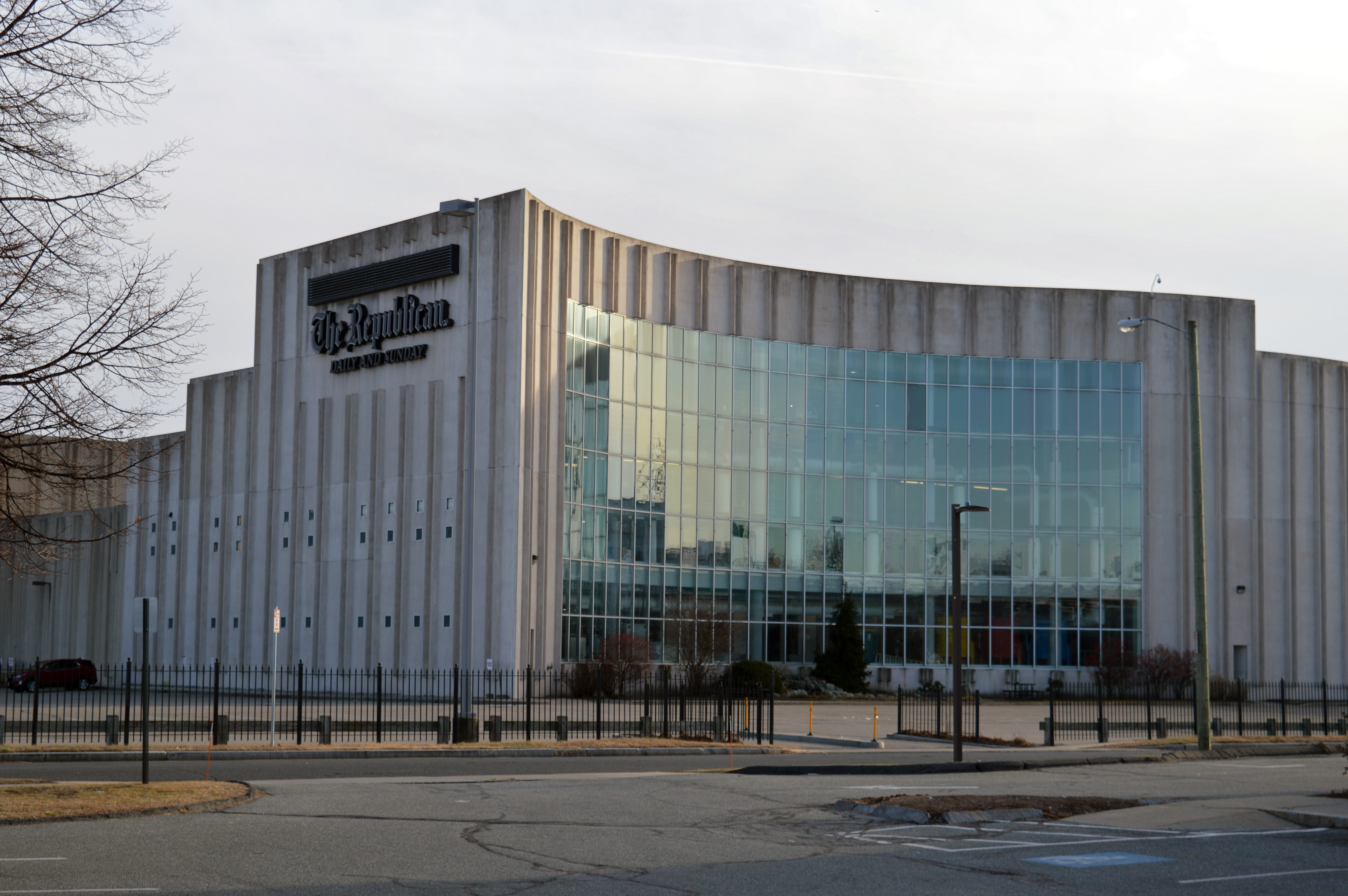 The headquarters and printing press of The Republican in Springfield, Massachusetts.